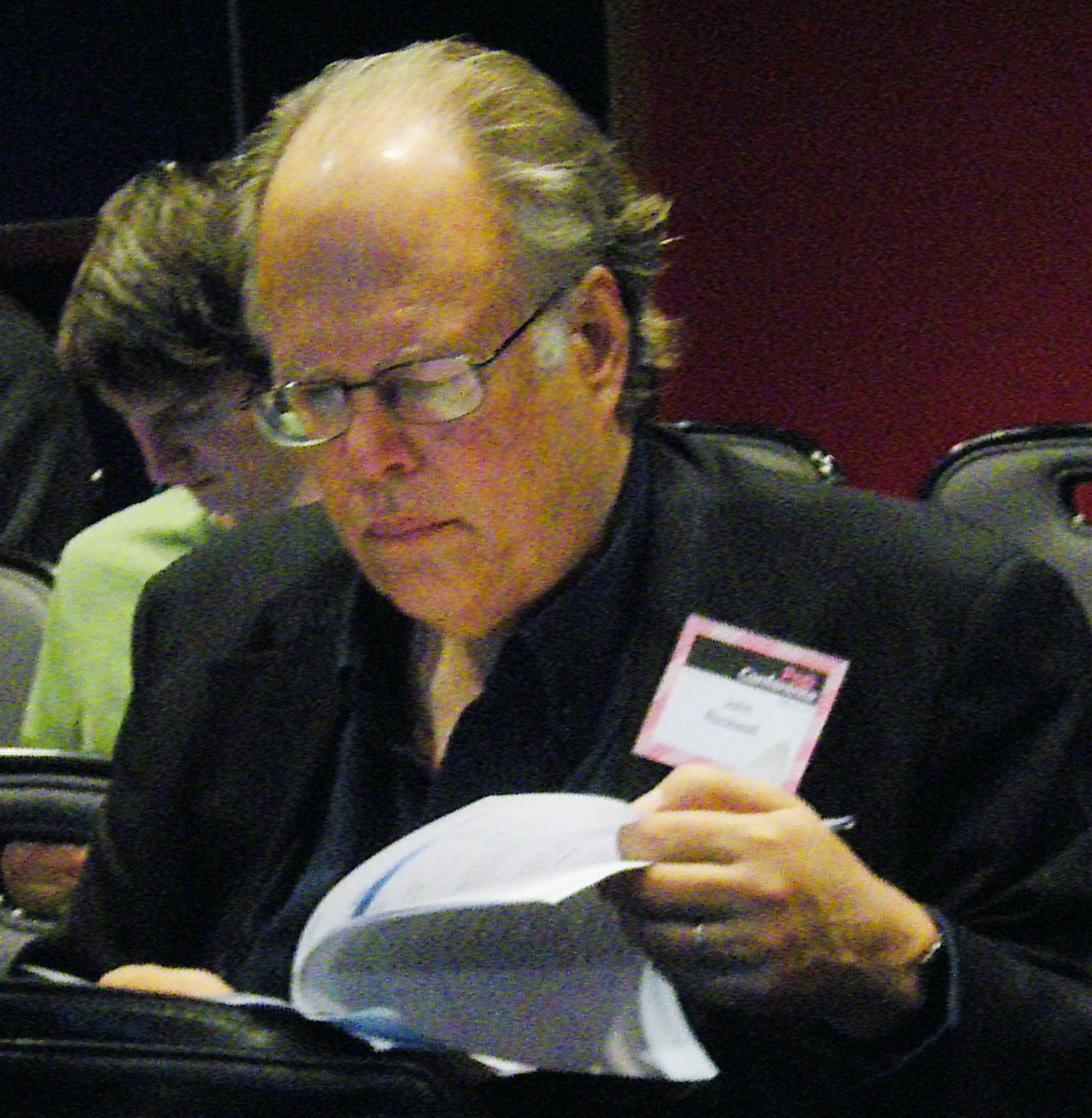 New York Times critic John Rockwell at the 2009 Pop Conference, Experience Music Project, Seattle, Washington.